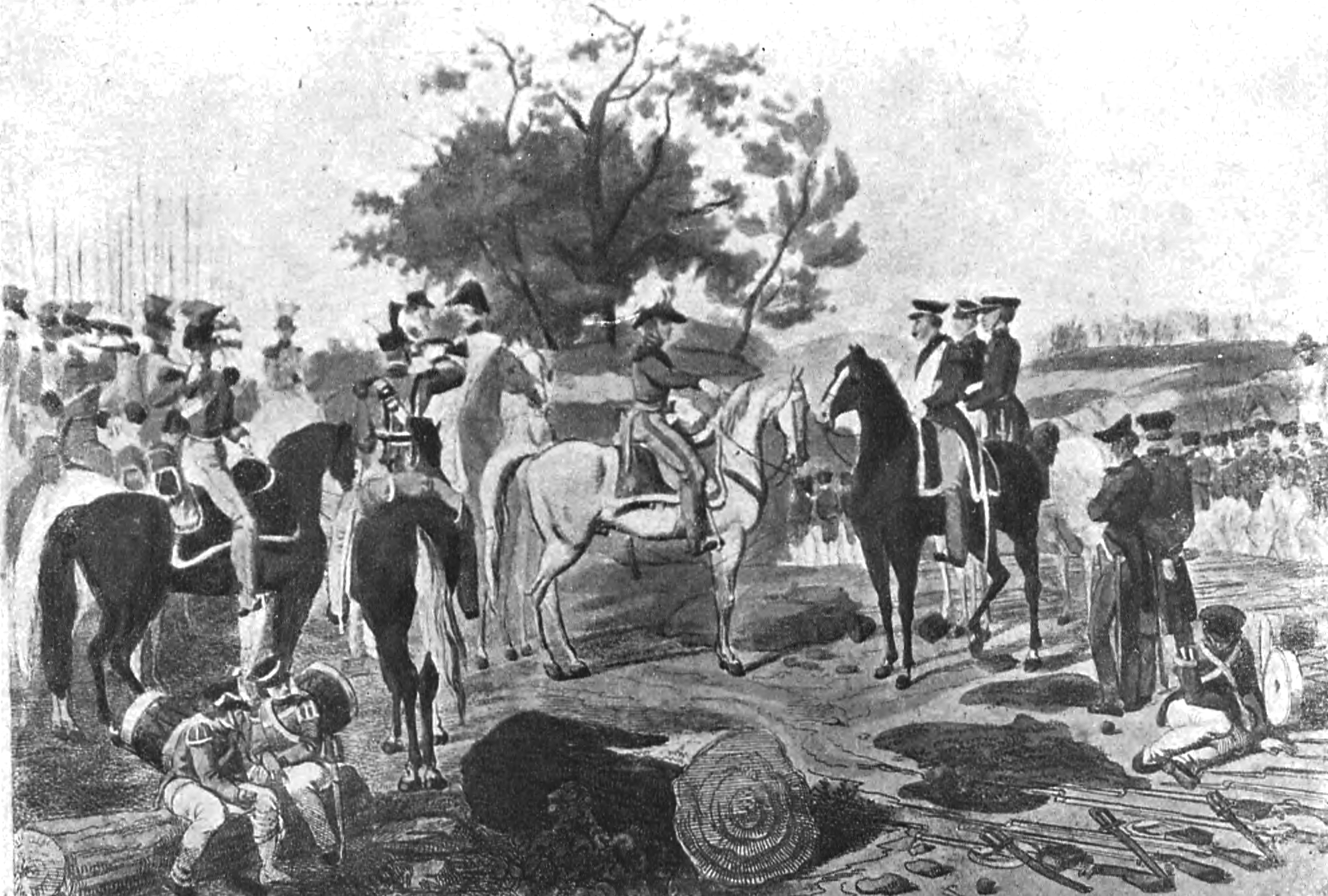 Russian corps surrender to Polish General Henryk Dembiński in Lithuania